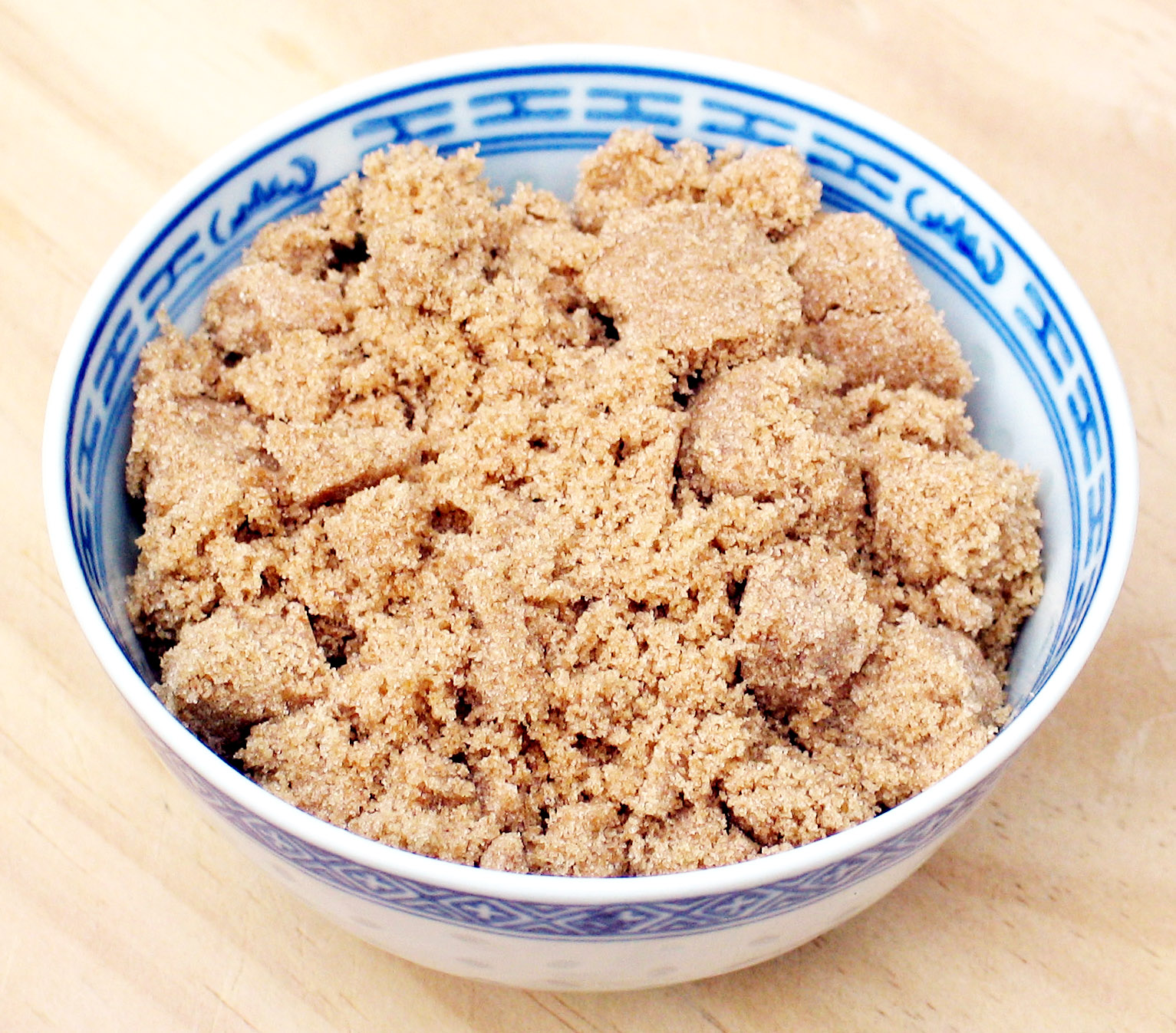 This is a bowl of brown sugar.